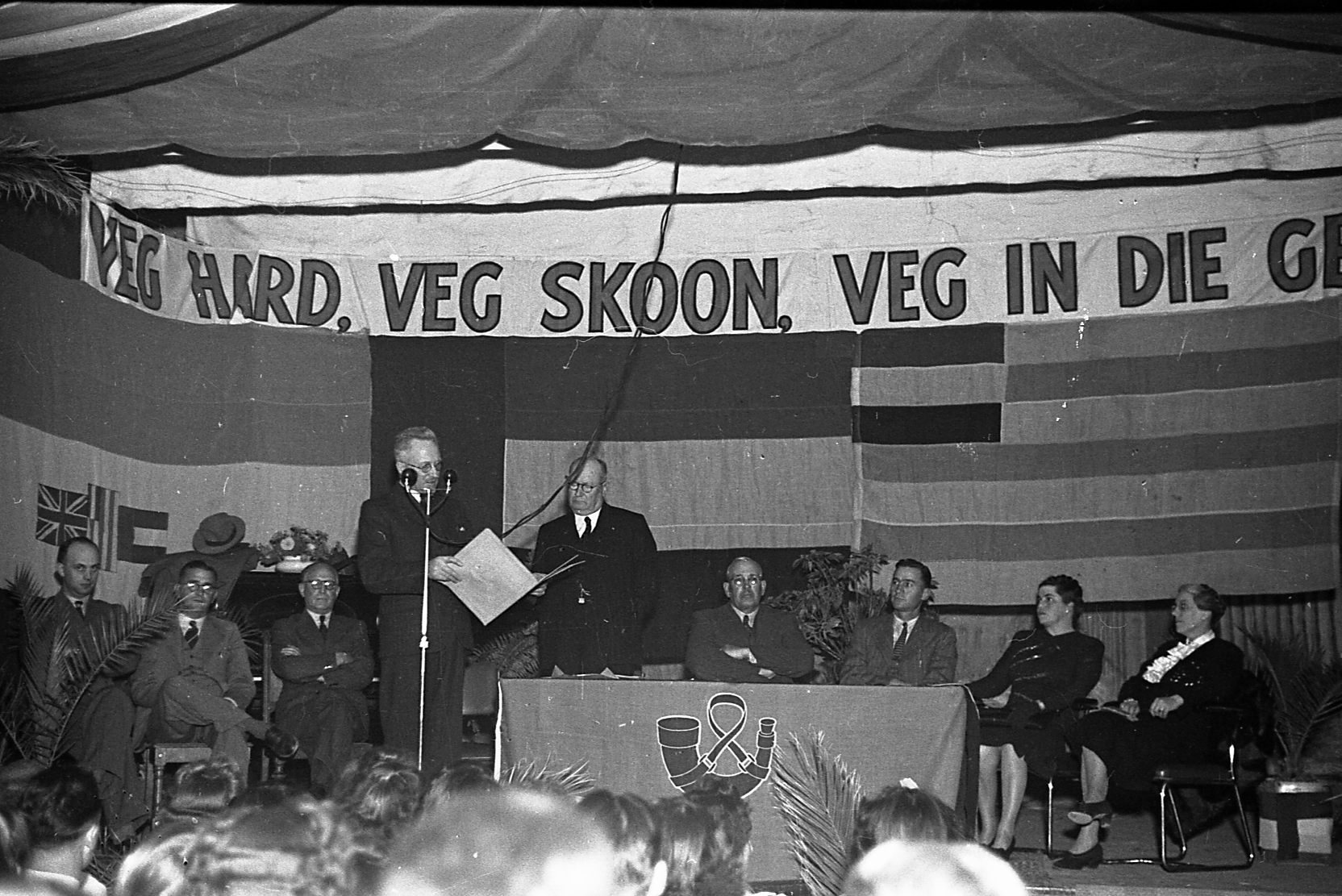 Visit of the Dr. D.F. Malan to South West Africa.